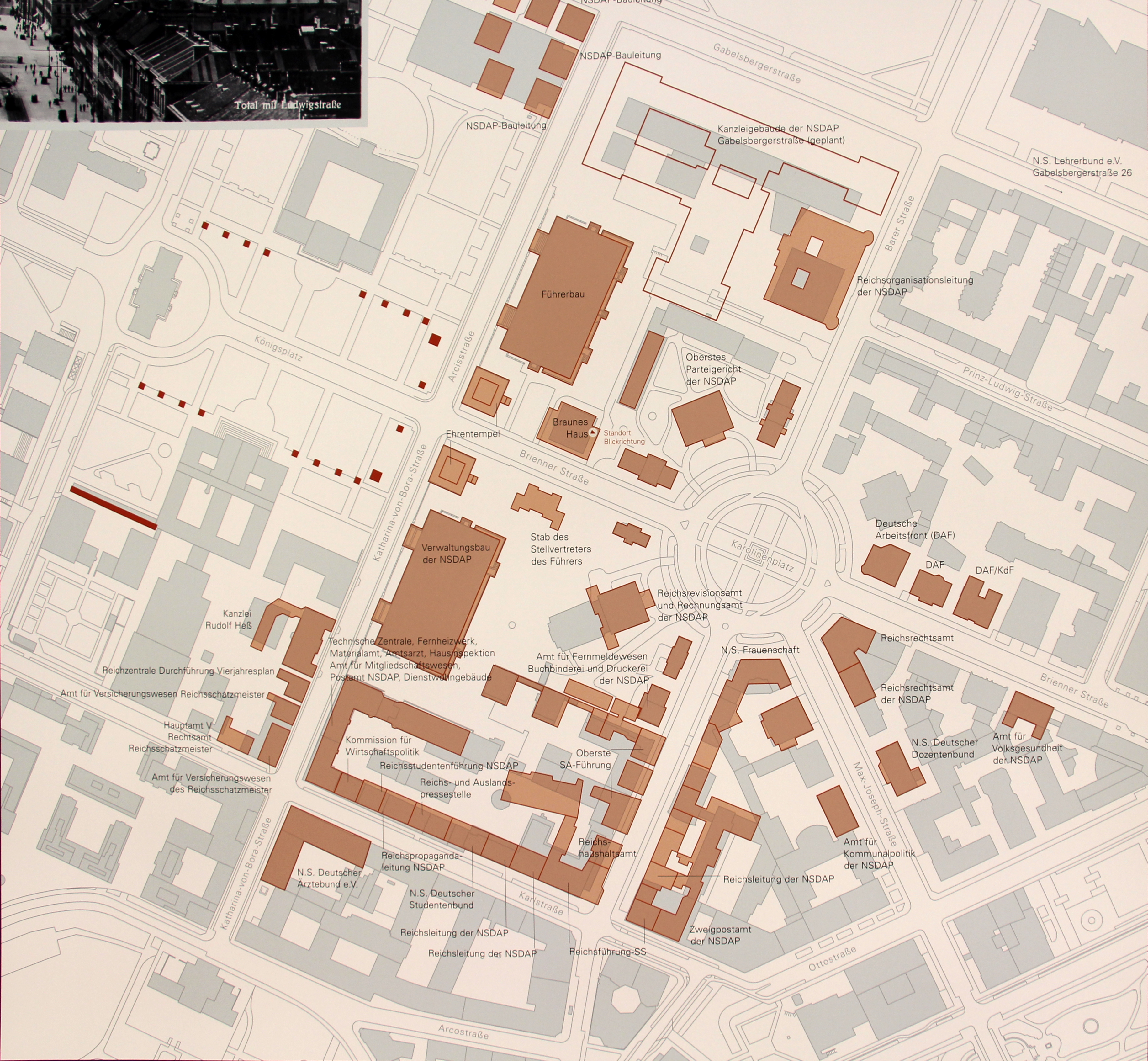 Brienner Straße The NS-Dokumentationszentrum is a museum which focuses on the history of Munich and the rest of Bavaria during World War I, and World War II, especially the history and consequences of the Nazi regime. It is situated at the site of the former Brown House, the Nazi Party headquarters.